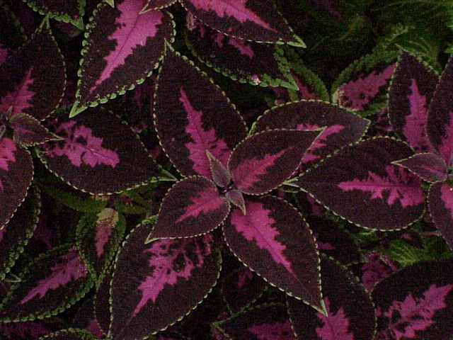 Species: Coleus sp. Family: Lamiaceae Image No. 2